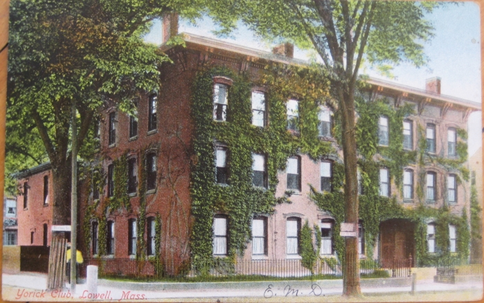 Postcard of Yorick Club Lowell MA